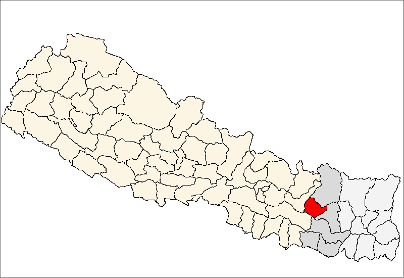 FrenchCarte de localisation dudistrict d'Okhaldhunga(wp-FR),au Népal (wp-FR).EnglishLocation map ofOkhaldhunga District(wp-EN),in Nepal (wp-EN).